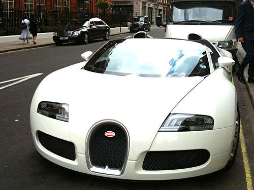 White Bugatti Veyron Grand Sport.